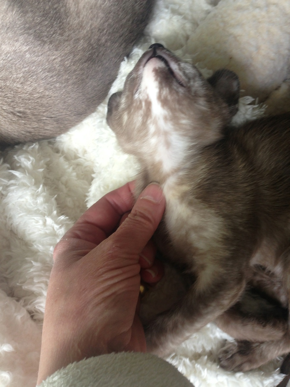 Image of kitten showing how to pinch the phrenic nerve